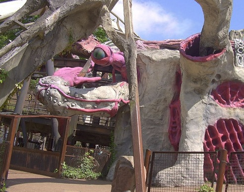 Station of Nemesis at Alton Towers, United Kingdom.